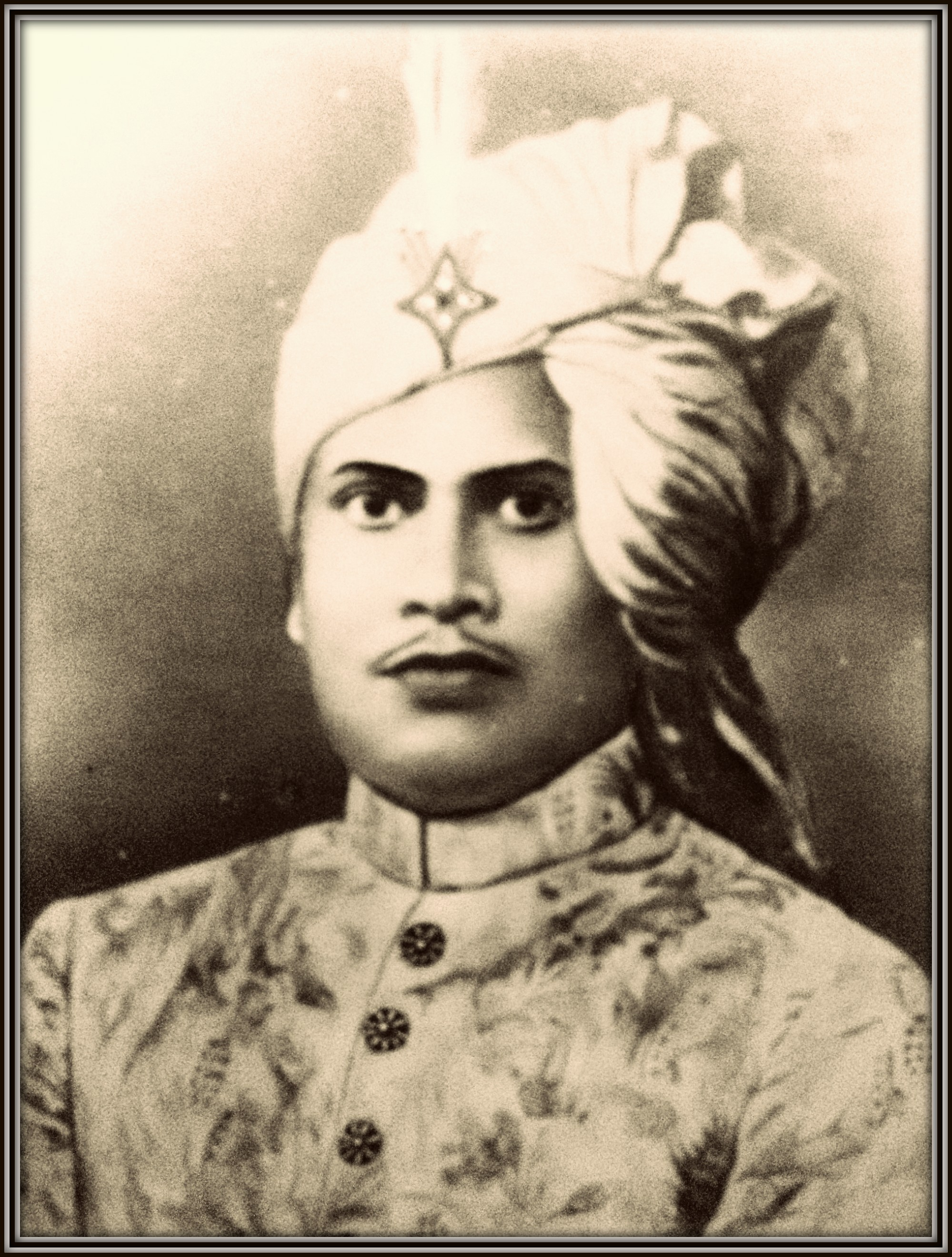 Raja Narasingha Malla Deb the king of Jhargram